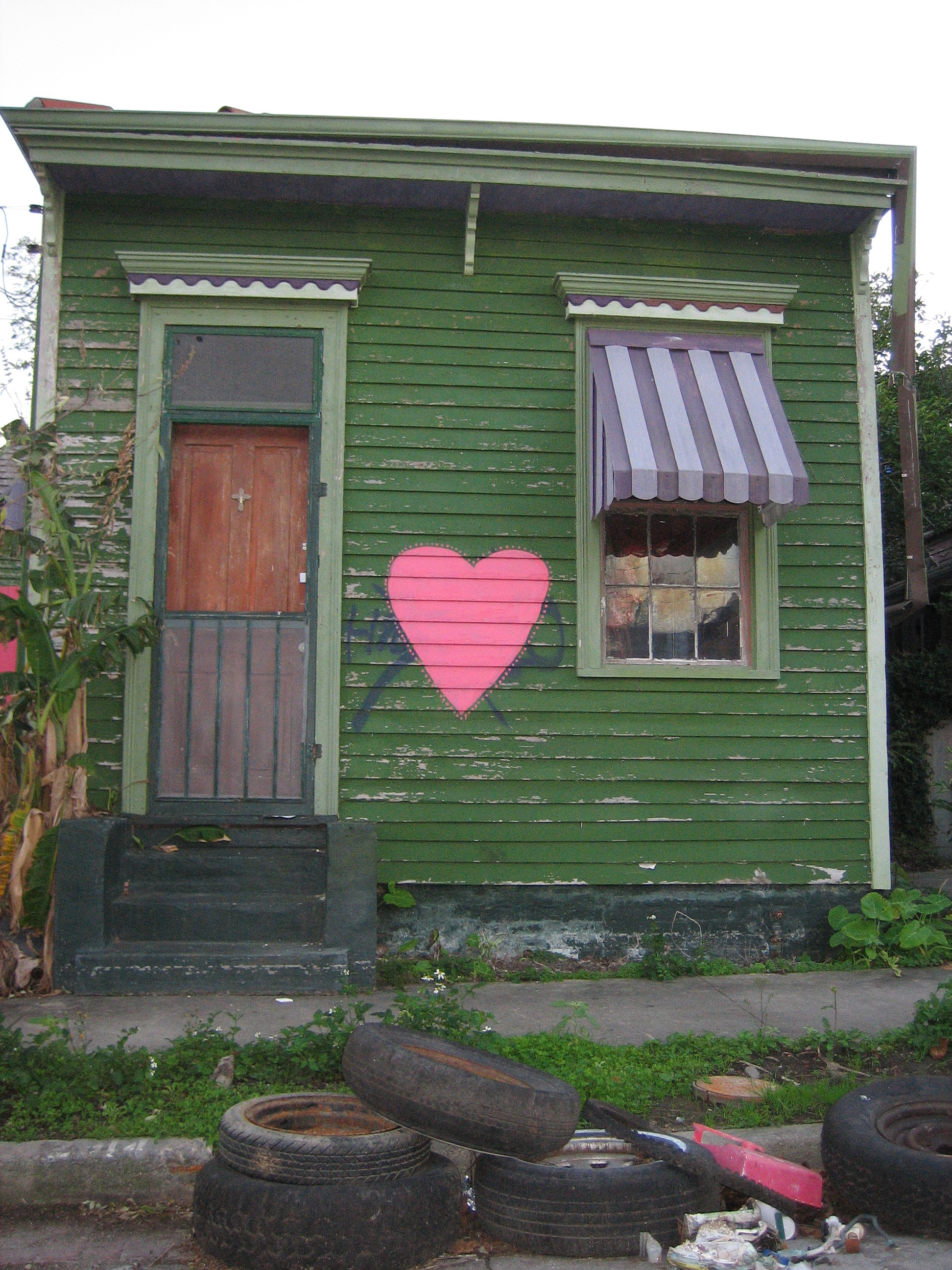 New Orleans after Hurricane Katrina: Small "shotgun" style house in the Bayou St. John neighborhood has a heart painted over the mark of the post-storm search & rescue team.